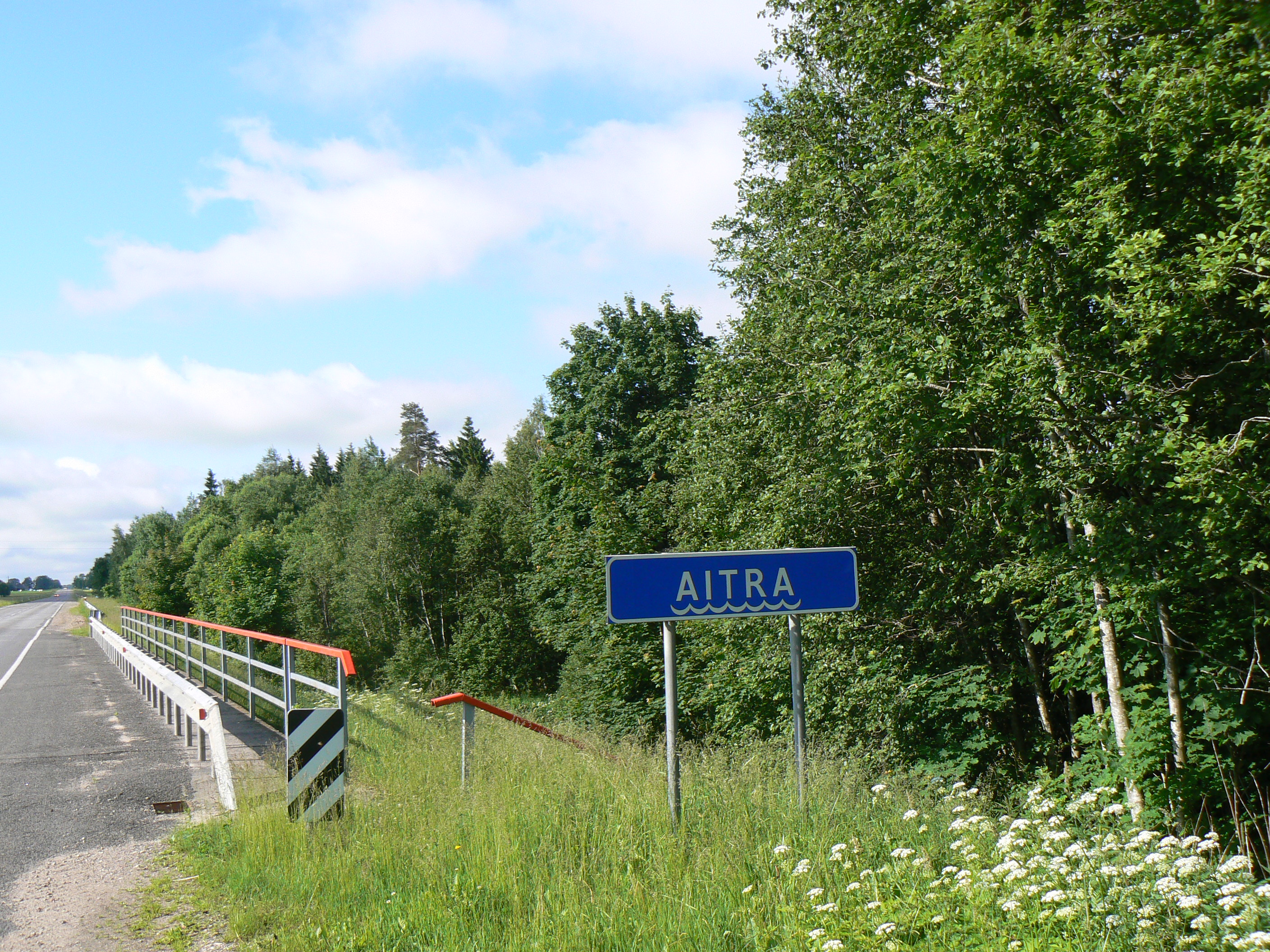 River Aitra (Lithuania)